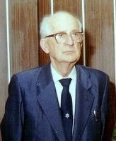 Straub F. Brunó biochemist and politician